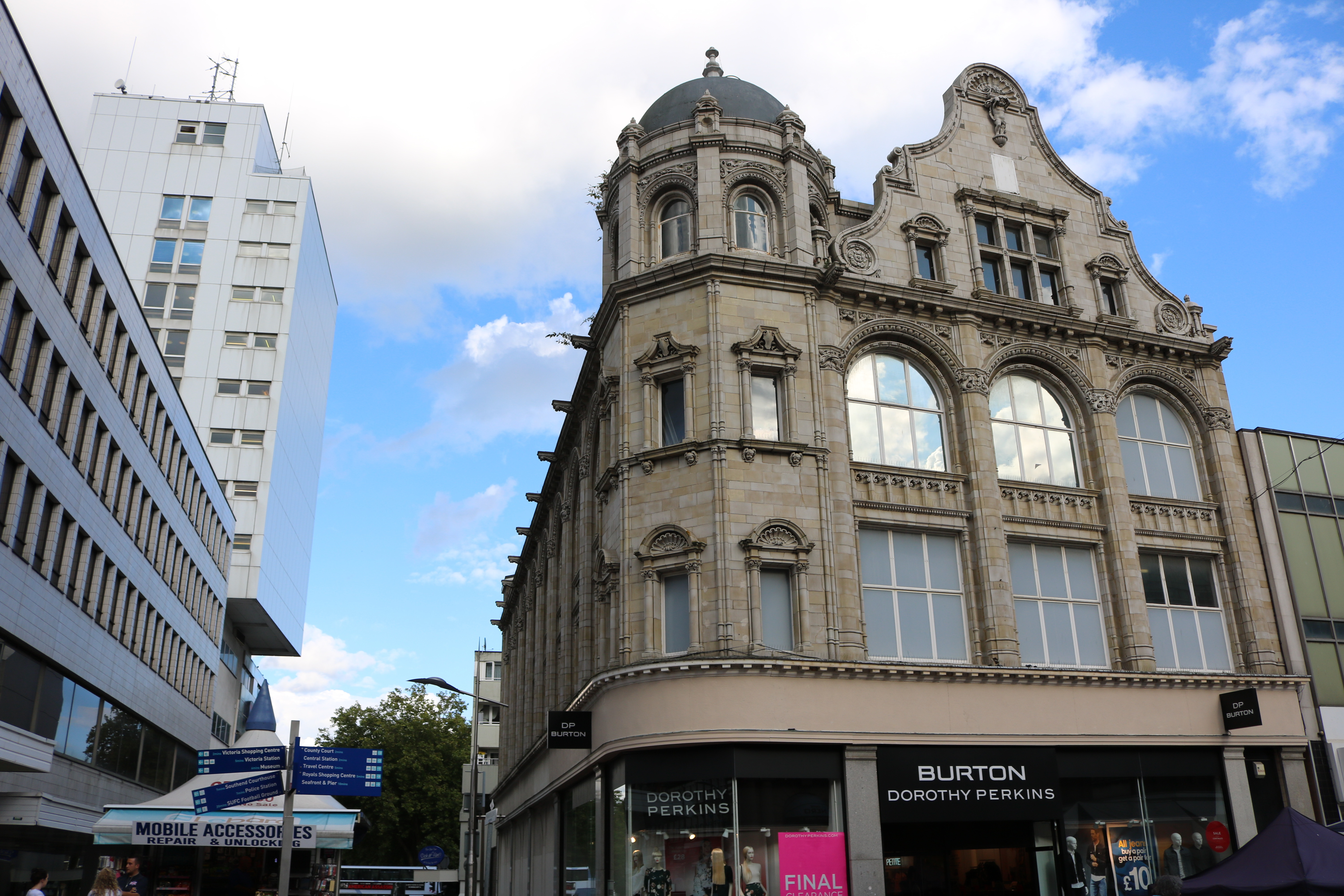 130 High Street Wikidata has entry Q26675717 with data related to this item.